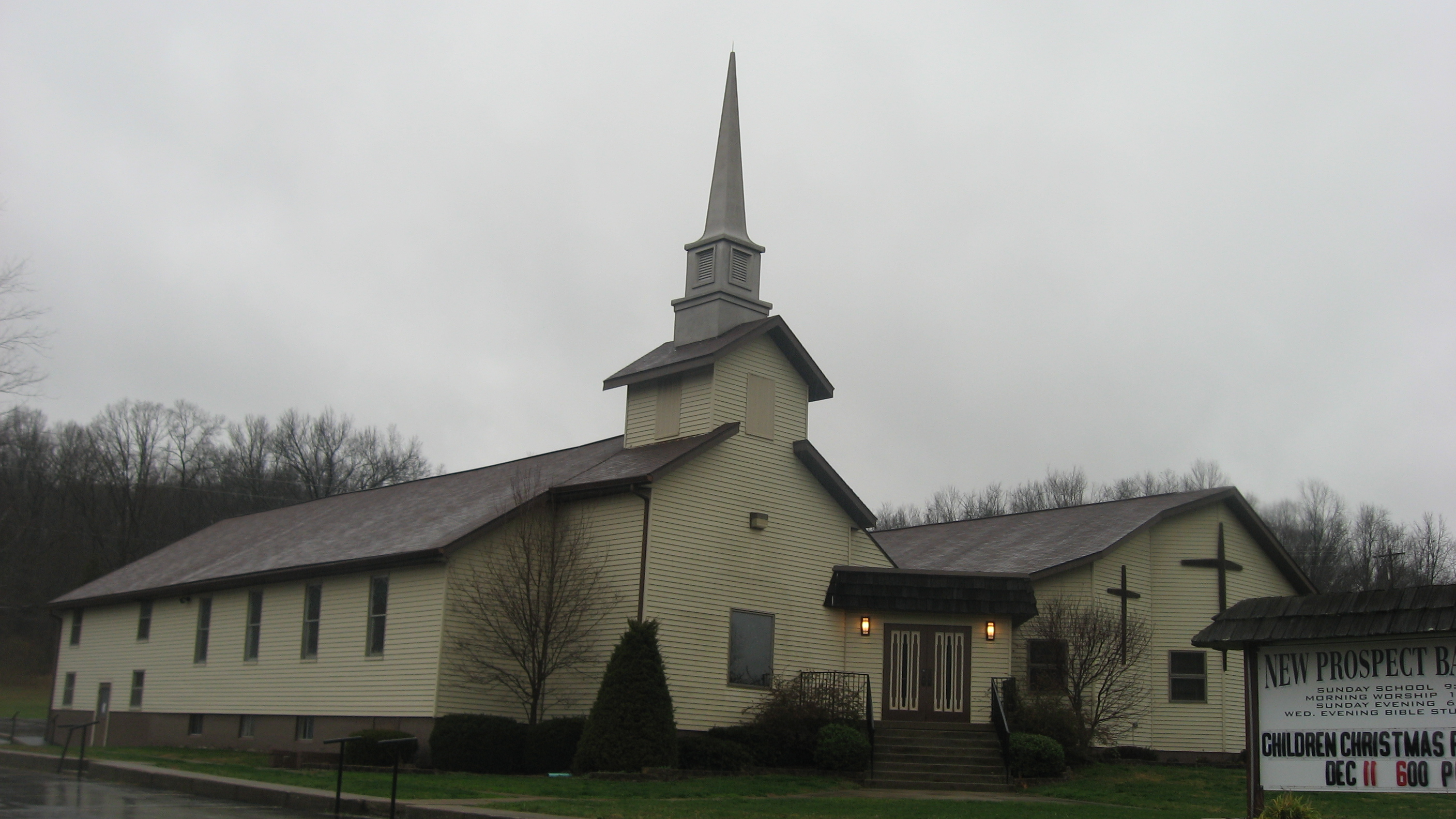 Front and southern side of the New Prospect Baptist Church, located at 6055 N. Old State Road 37 north of Bloomington in Washington Township, Monroe County, Indiana, United States. It was built in 1970.